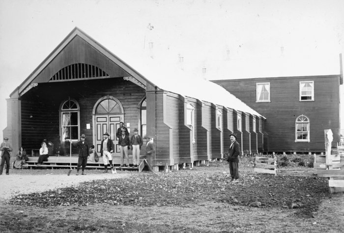 Large two-storied house built for meetings of the Māori Parliament at Pāpāwai, Greytown, 1897, with some men standing in the porch of the house and in front. Pāpāwai was the seat of the Māori Parliament in the 1890s; it later fell into disrepair in the years following World War One.